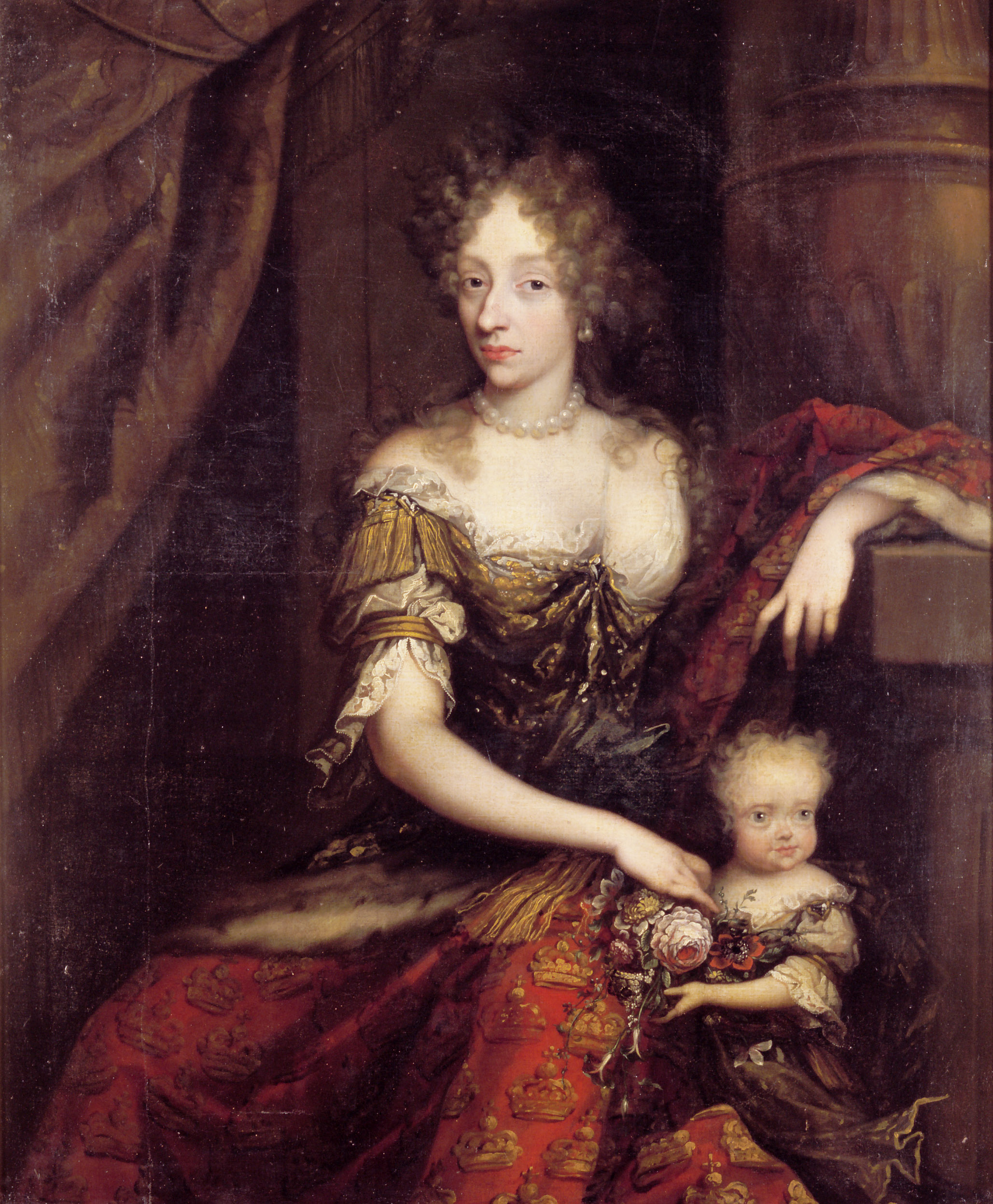 Margravine Charlotte Amalie of Hesse-Kassel (1650-1714), queen consort of Denmark and Norway, with one of her children.